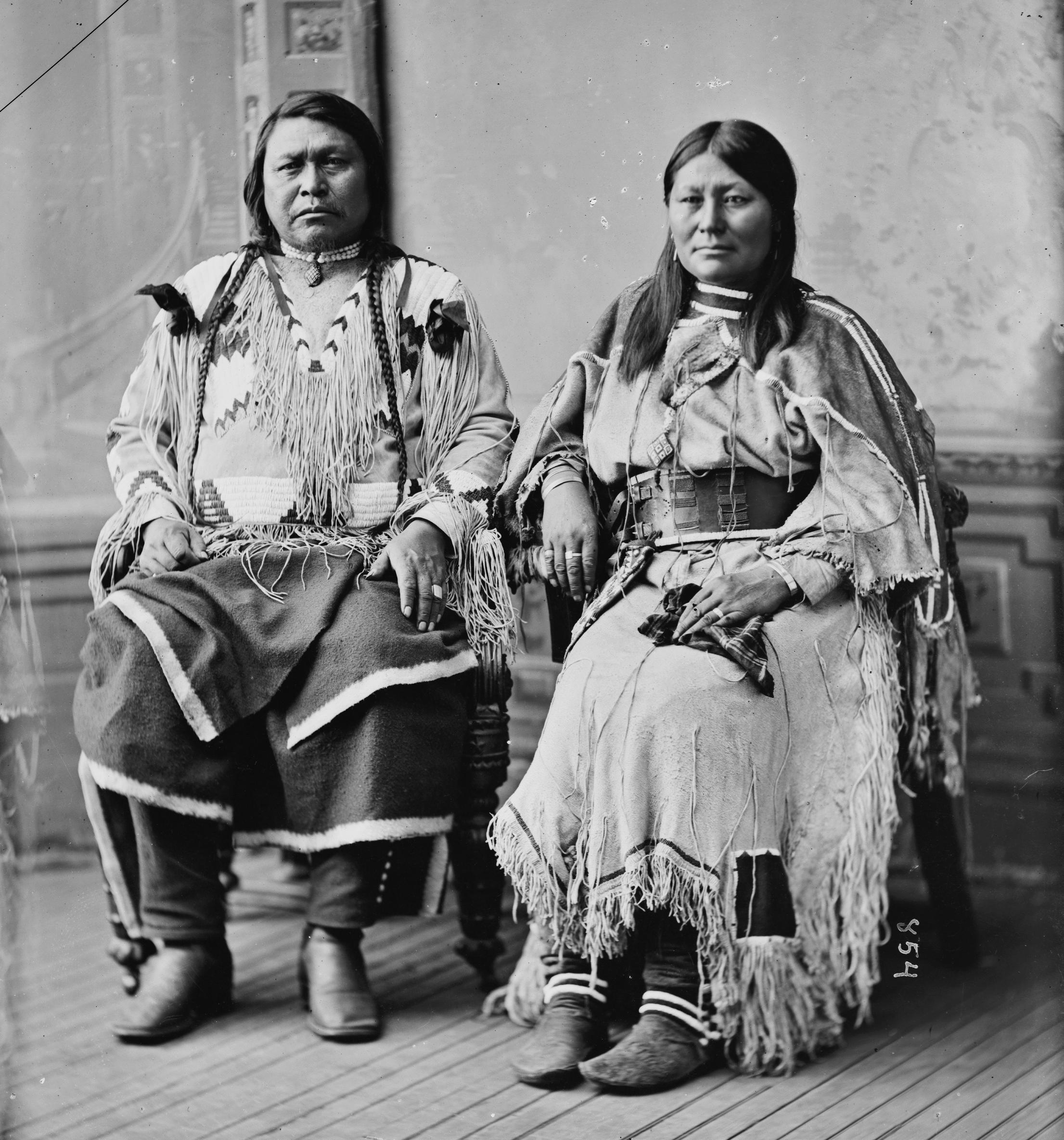 Chief Ouray. Library of Congress description: "Indian Group. Chief Ouray & Chipeta (Ute Tribe)".